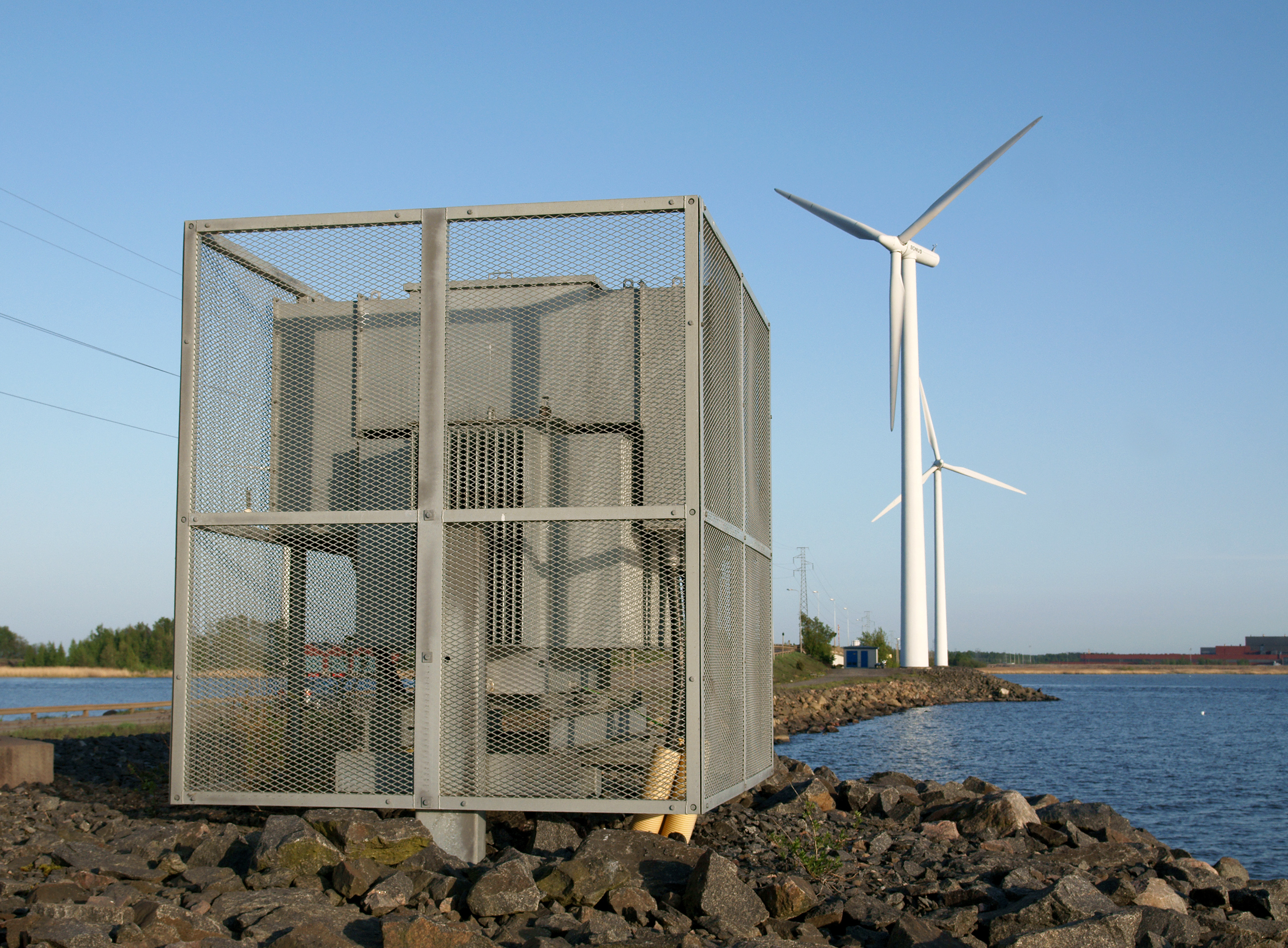 Transformer of wind power plant.